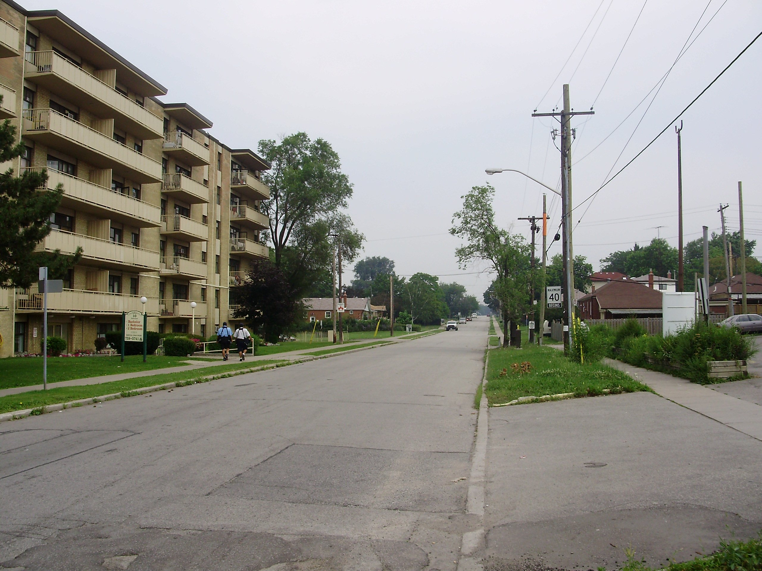 Looking north up Ionview Road from its intersection with Eglinton Avenue East in the neighbourhood of Ionview, in Scarborough, Canada.